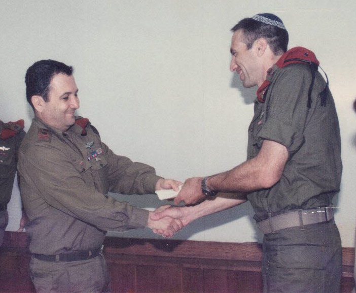 אהוד ברק ומוטי יוגב